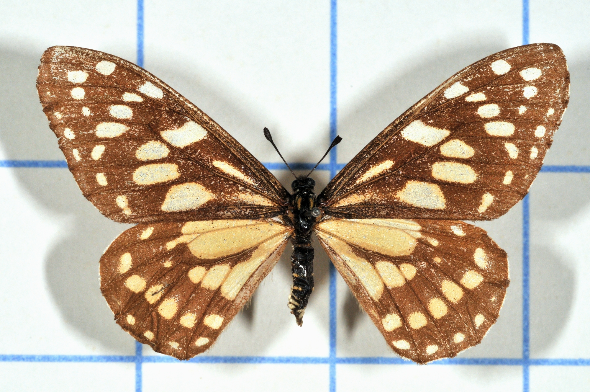 Baronia brevicornis, Mexico, Coll. MWNH, Museum Wiesbaden, Germany